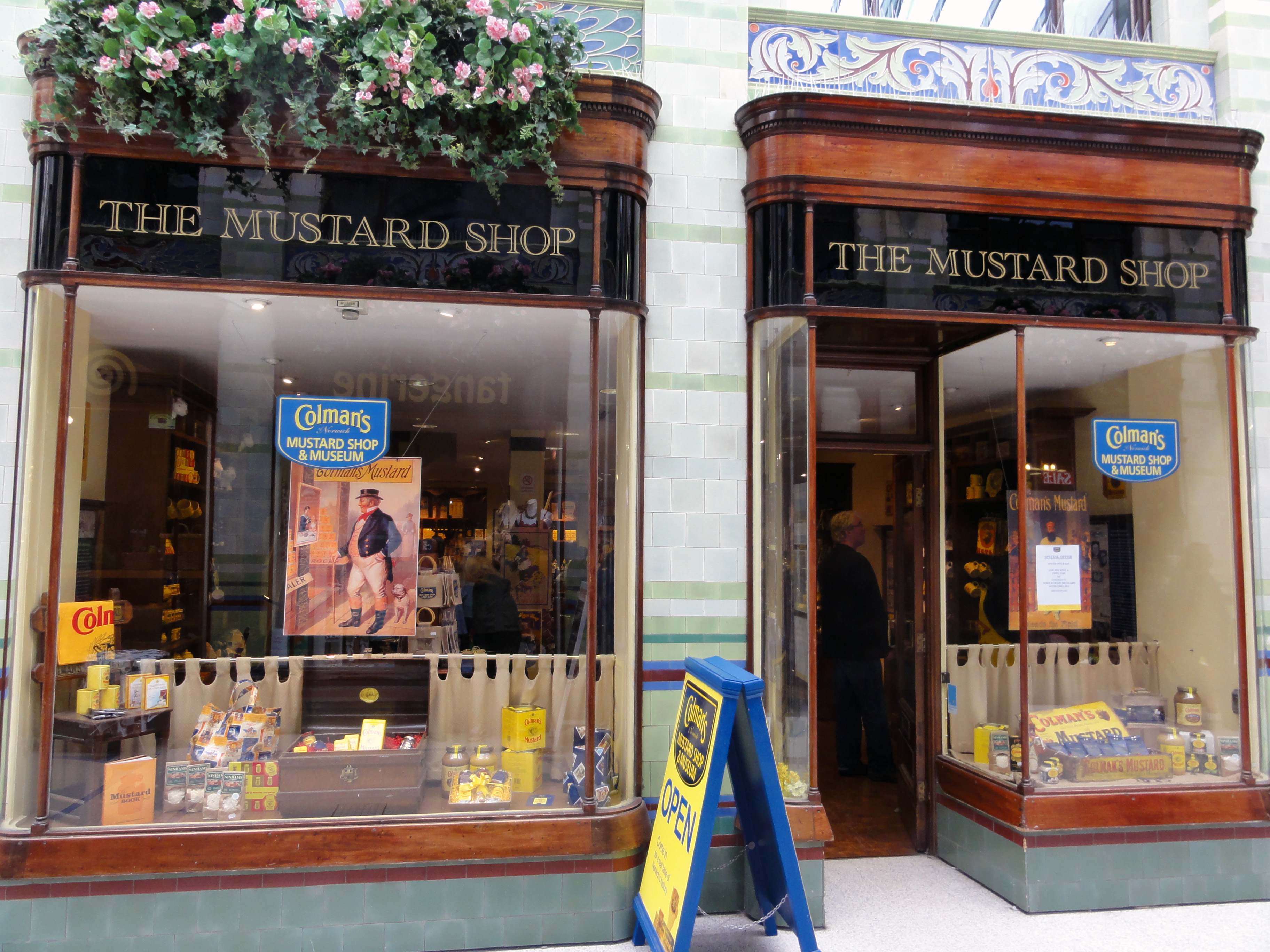 Frontage of Colman's Mustard Shop & Museum